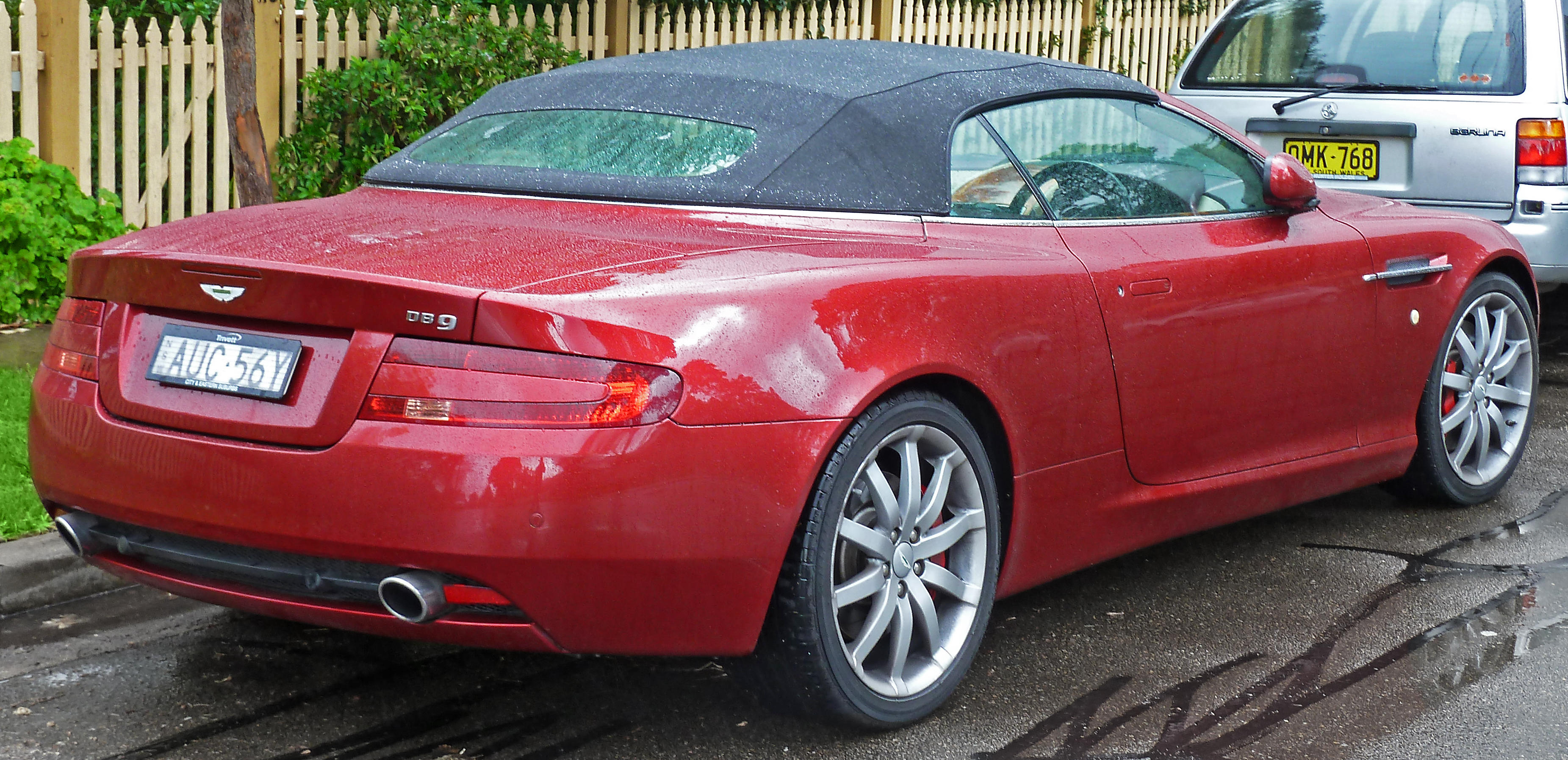 2005 Aston Martin DB9 Volante convertible. Photographed in Chatswood, New South Wales, Australia.